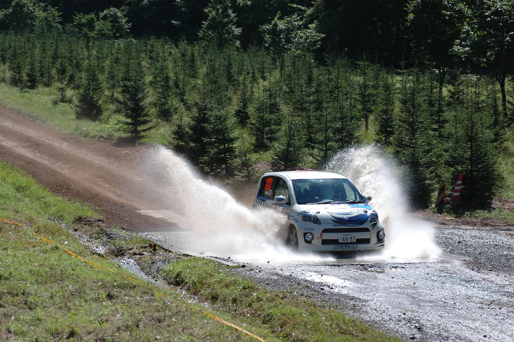 Masatoshi Ogura driving his N1 class Daihatsu Boon at the 2006 Rally Japan.